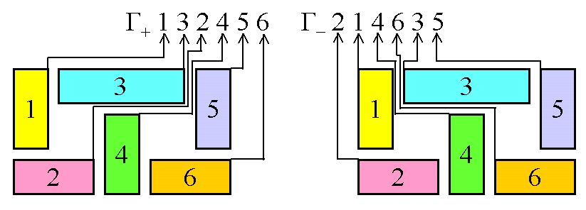 Example of Gridding procedure.